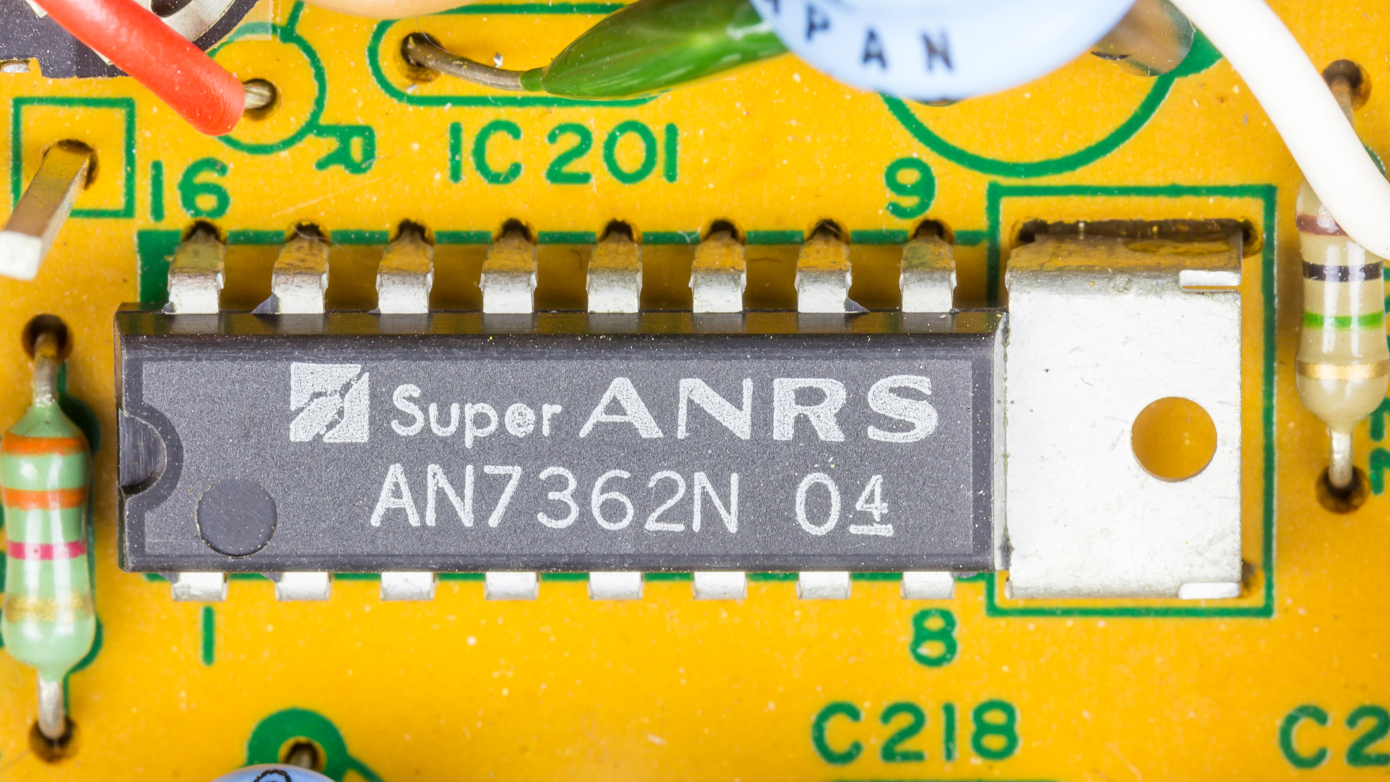 JVC KD-A22 - Super ANRS AN7362N. An IC for a "Automatic Noise Reduction System"